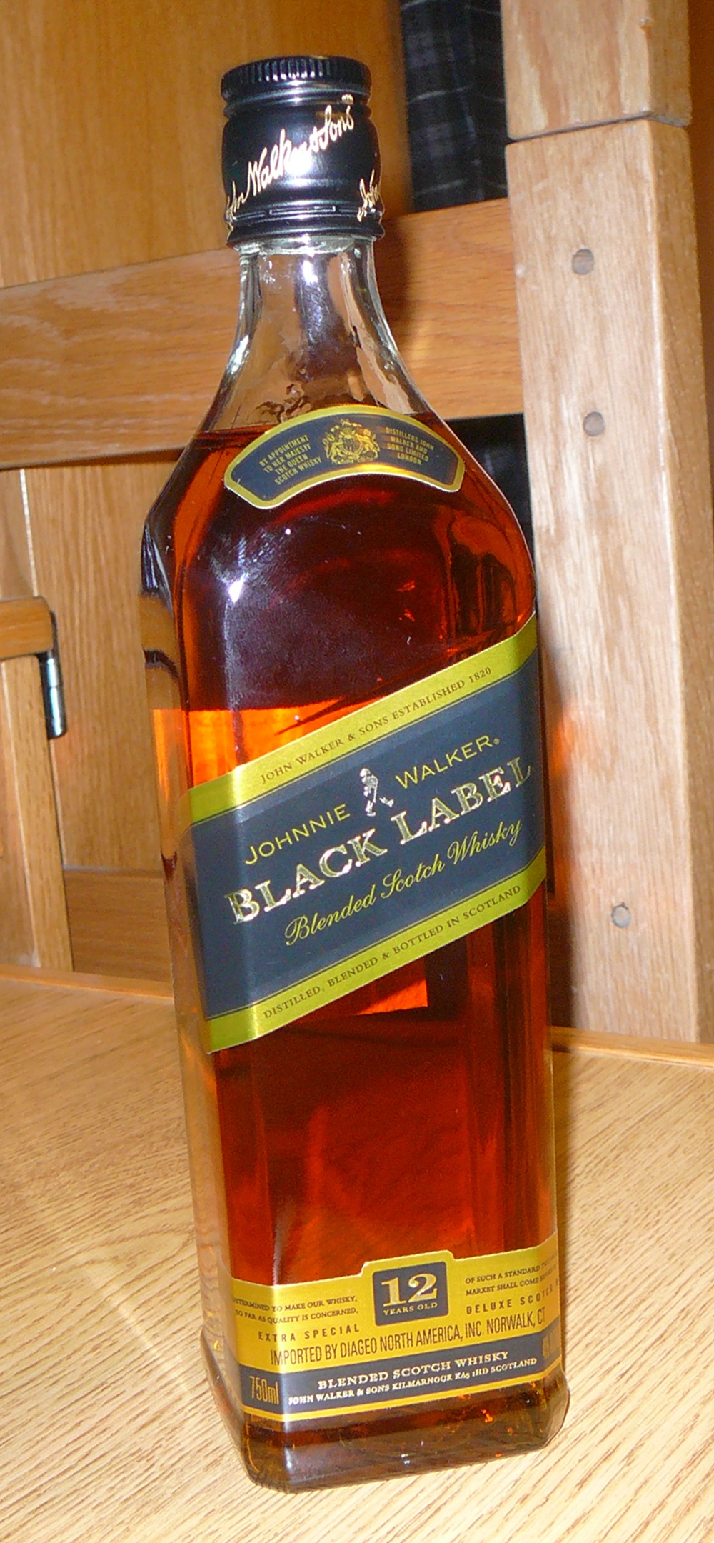 Johnnie Walker Black Label 750mL